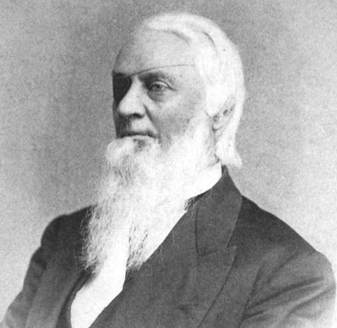 Christopher Morgan, Congressman from New York